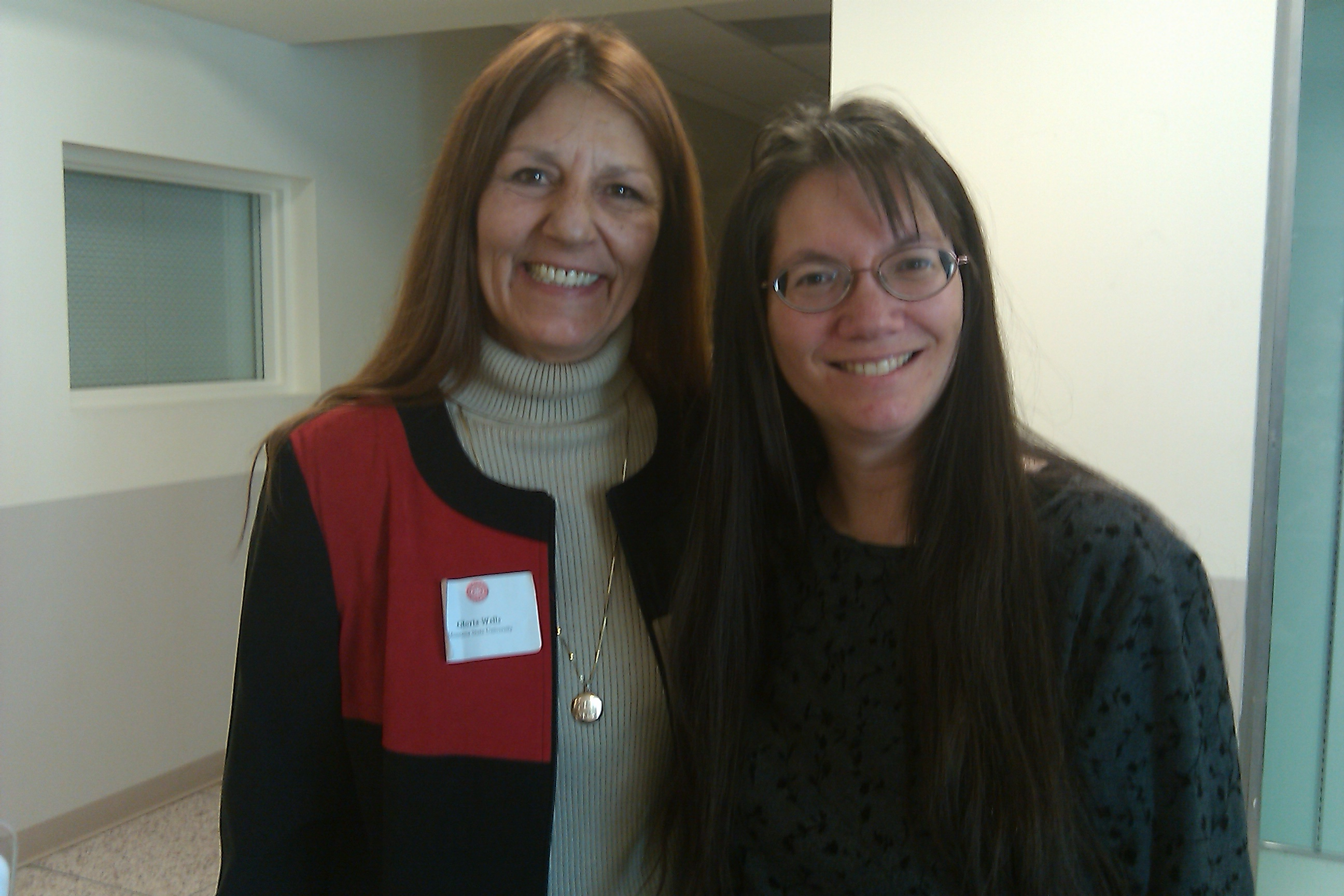 Photograph of Gloria Wells on the left and Andrea Smith on the right taken at the 2011 Annual Women's Studies Conference on Saturday March 26th, 2011,Dickinson College, Carlisle, Pennsylvania